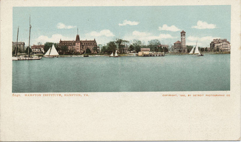 Hampton Institute, Hampton, VA.